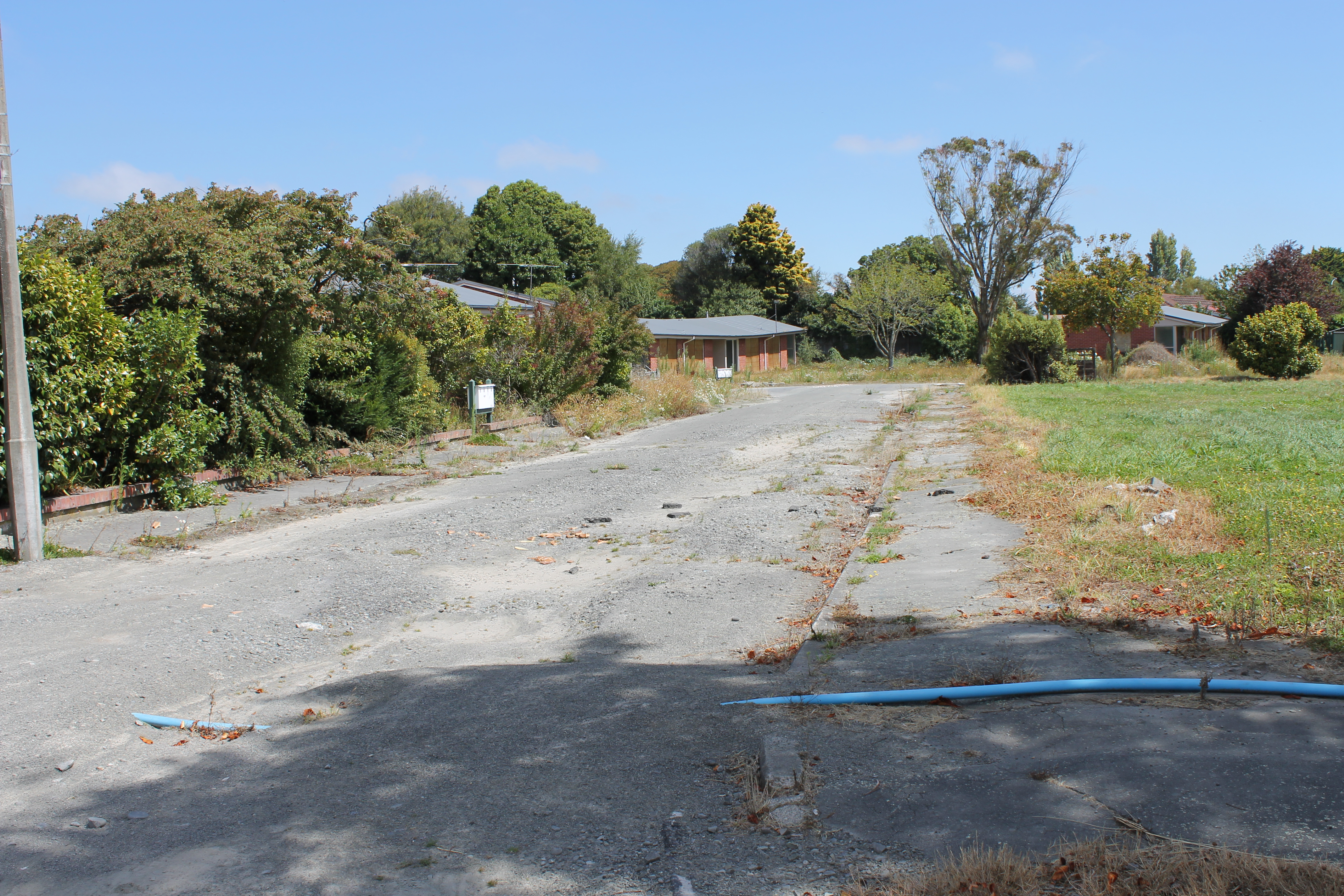 Bowie Place in Avonside, where Christchurch City Council had 32 social housing units.